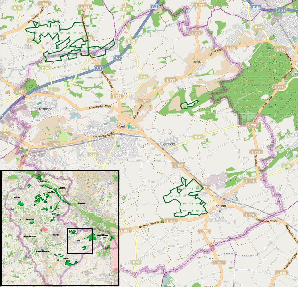 Nature reserves in Verl - overview map Number and borders of nature reserves are subject to frequent change. In order to facilitate reproduction of this map from openstreetmap, the following data is stored here: export boundaries: north: 51.928; west: 8.44 south: 51.827; east: 8.827 mapnik svg, scale 1:70.000 nature reserve boundary stroke weight 3.5; nature reserve stroke color: R 5, G 102, B 36; district border stroke weight: 20